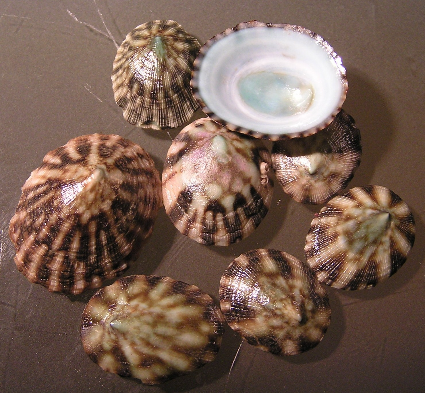 Testudinalia testudinalis, (Müller, 1776), a limpet from the family Lottiidae; Pacific Mexico